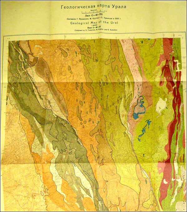 Geologic Map of the Urals (compiled in 1930). 1 : 200 000. Worksheet 0-40-XII. Proceedings of the All-Union Geological Association Issue 208. M., L. 1933